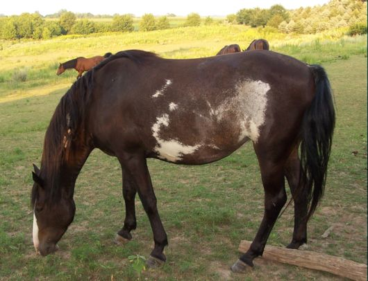 Picture of MP Gypsy Queen, registered Spanish Mustang -- bred by Many Ponies owned by McGregor Ranch